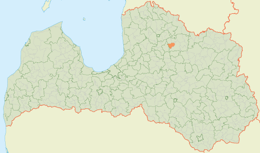 Location of Branti Parish in Latvia